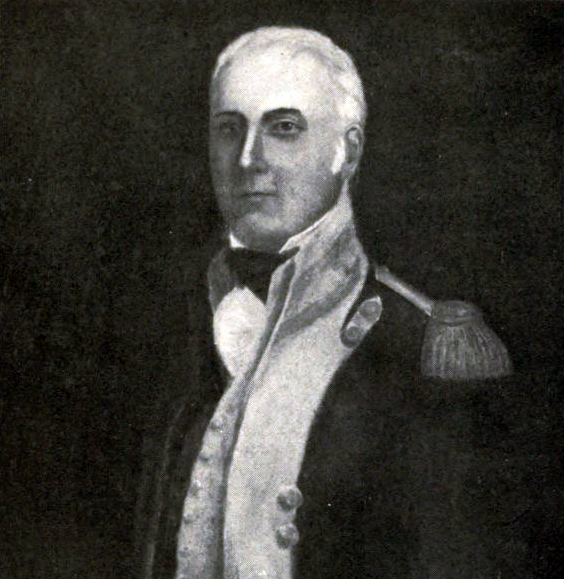 Major General of Militia Benjamin Mooers (1758-1838). Commander of one of two militia divisions raised in New York State during the War of 1812-1814. Book caption: From an old portrait now owned by a descendent in Chicago.